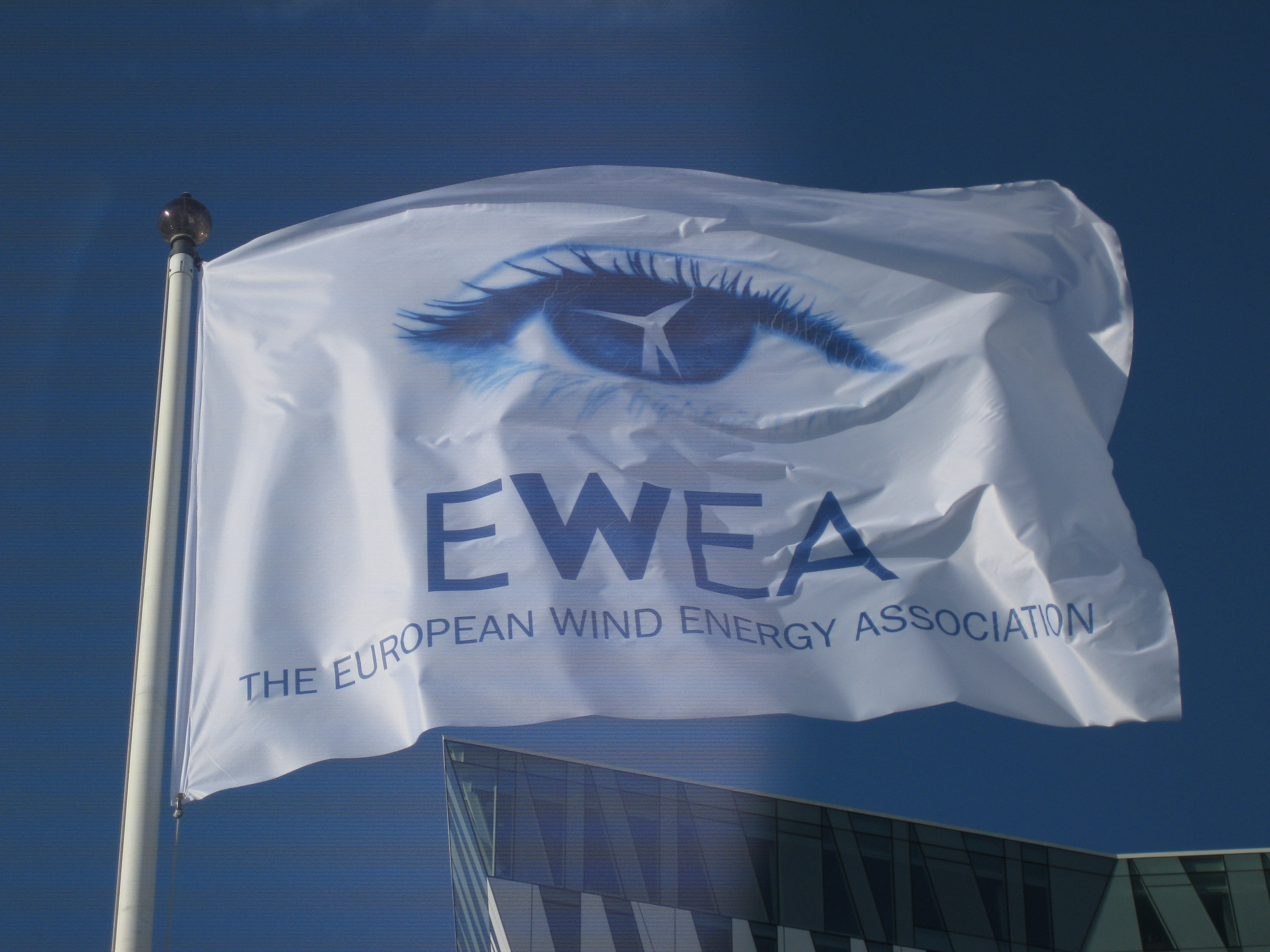 Flag with the logo of the European Wind Energy Association (EWEA) outside the EWEA 2012 Annual Event at Bella Center, Copenhagen, Denmark. In the background Bella Sky Comwell Hotel can be seen.